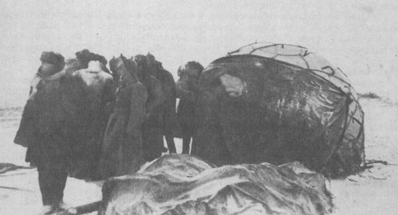 Inspection Commission views loss of stratospheric.